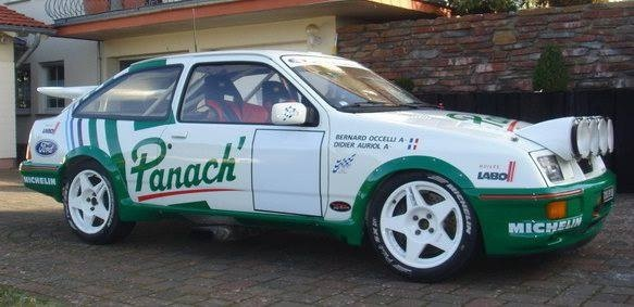 Didier Auriol Ford Sierra RS Cosworth Rally